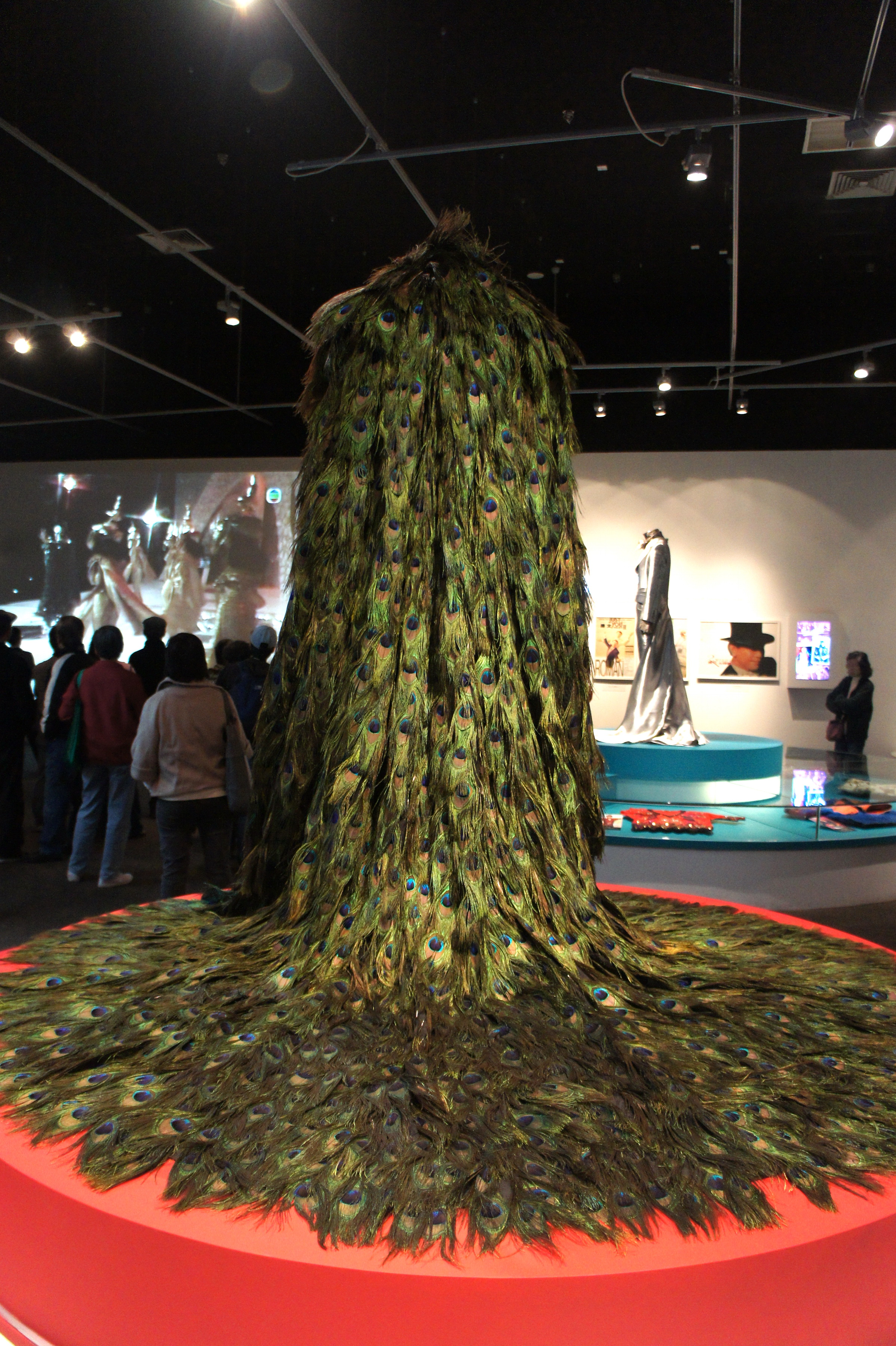 HKHM - Applauding to Hong Kong Pop Legend - Roman Tam peacock feathers costume. Roman Tam wore this costume with peacock feathers when performing in the farewell concent "Roman Tam's Glorious Stage" (1996)